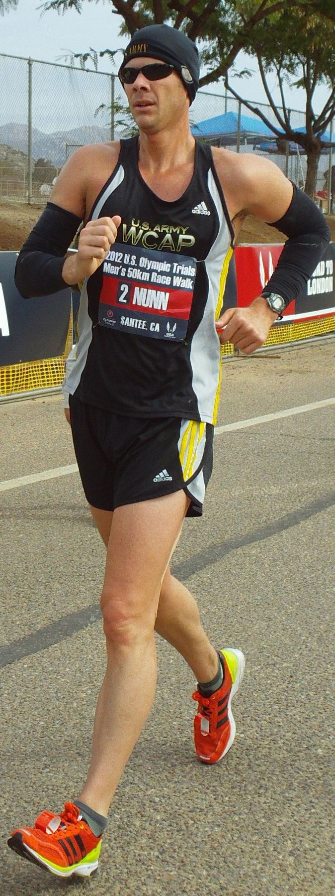 John Nunn winning the 2012 United States Olympic Trials 50K Racewalk in Santee, California